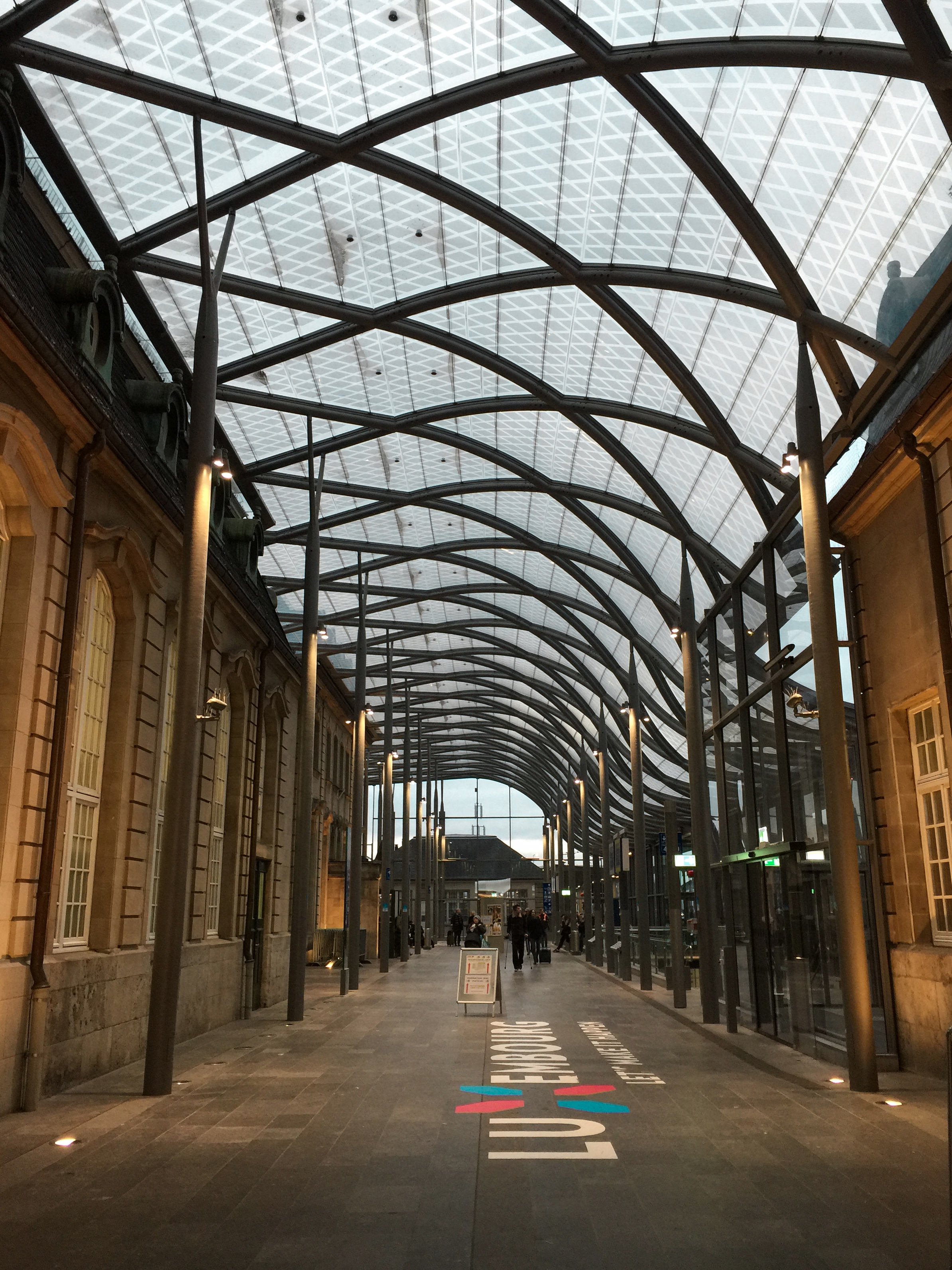 Hallway of the Luxembourg railway station